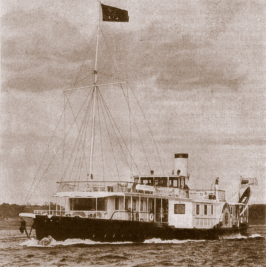 Paddle steamer Mezhen on the Volga river, Russia, in 1913